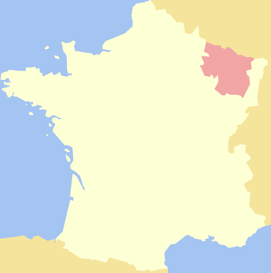 Duchy of Lorraine.